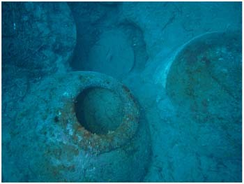 Elba wreck